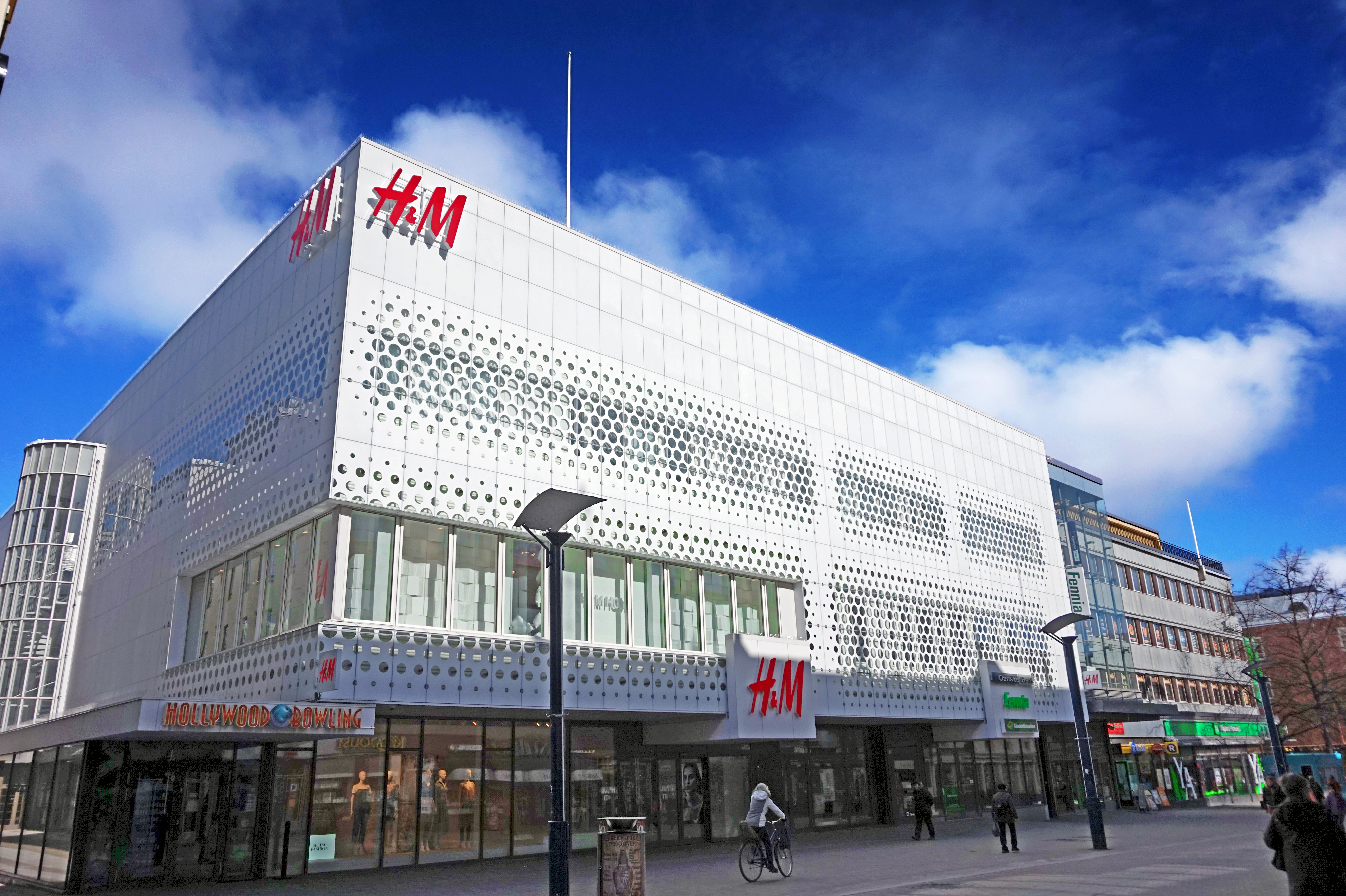 H&M store on the street Kauppakatu, Jyväskylä.This photograph was taken with a Sony ILCE-5000